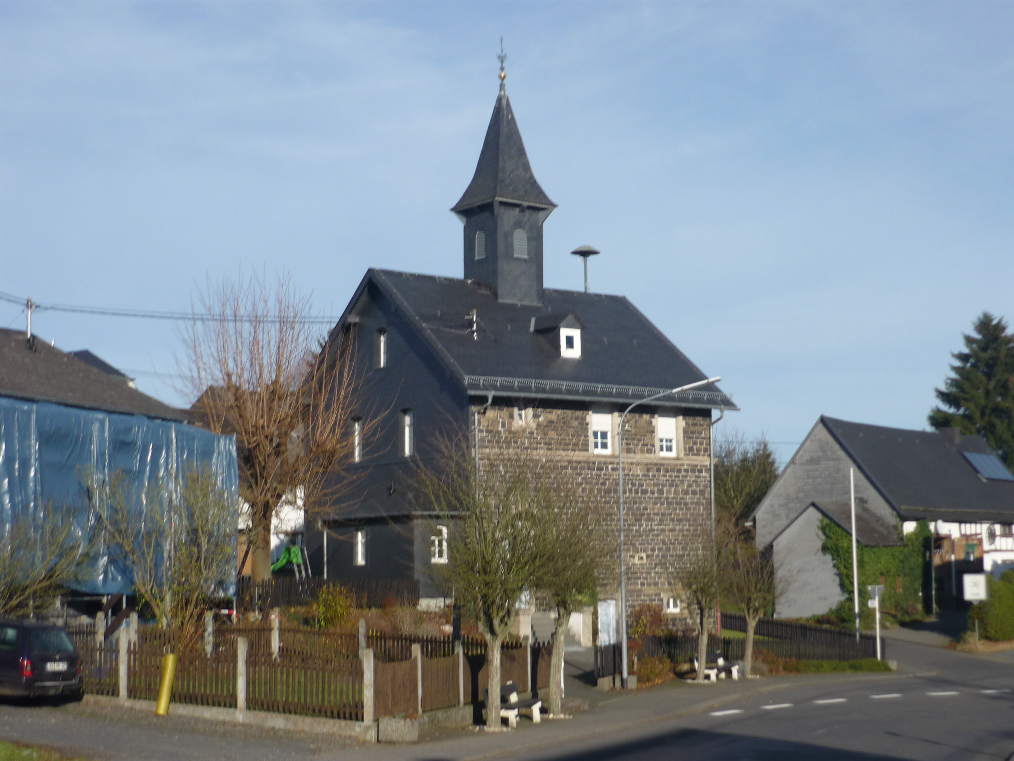 Lochum Westerwald